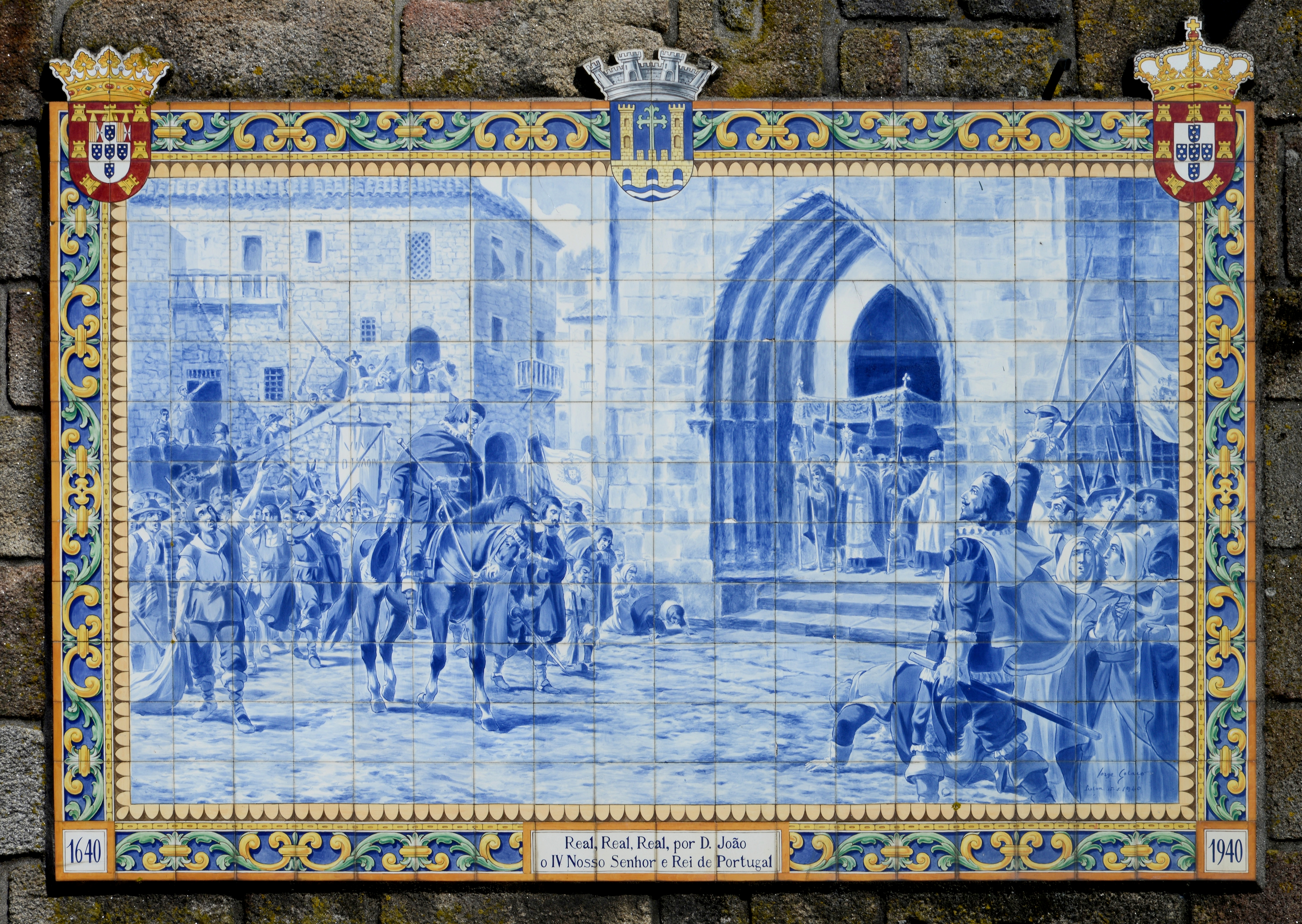 Panel of glazed tiles Jorge Colaço (1940) representing the acclamation of King John IV of Portugal, in 1640. Ponte de Lima, Portugal